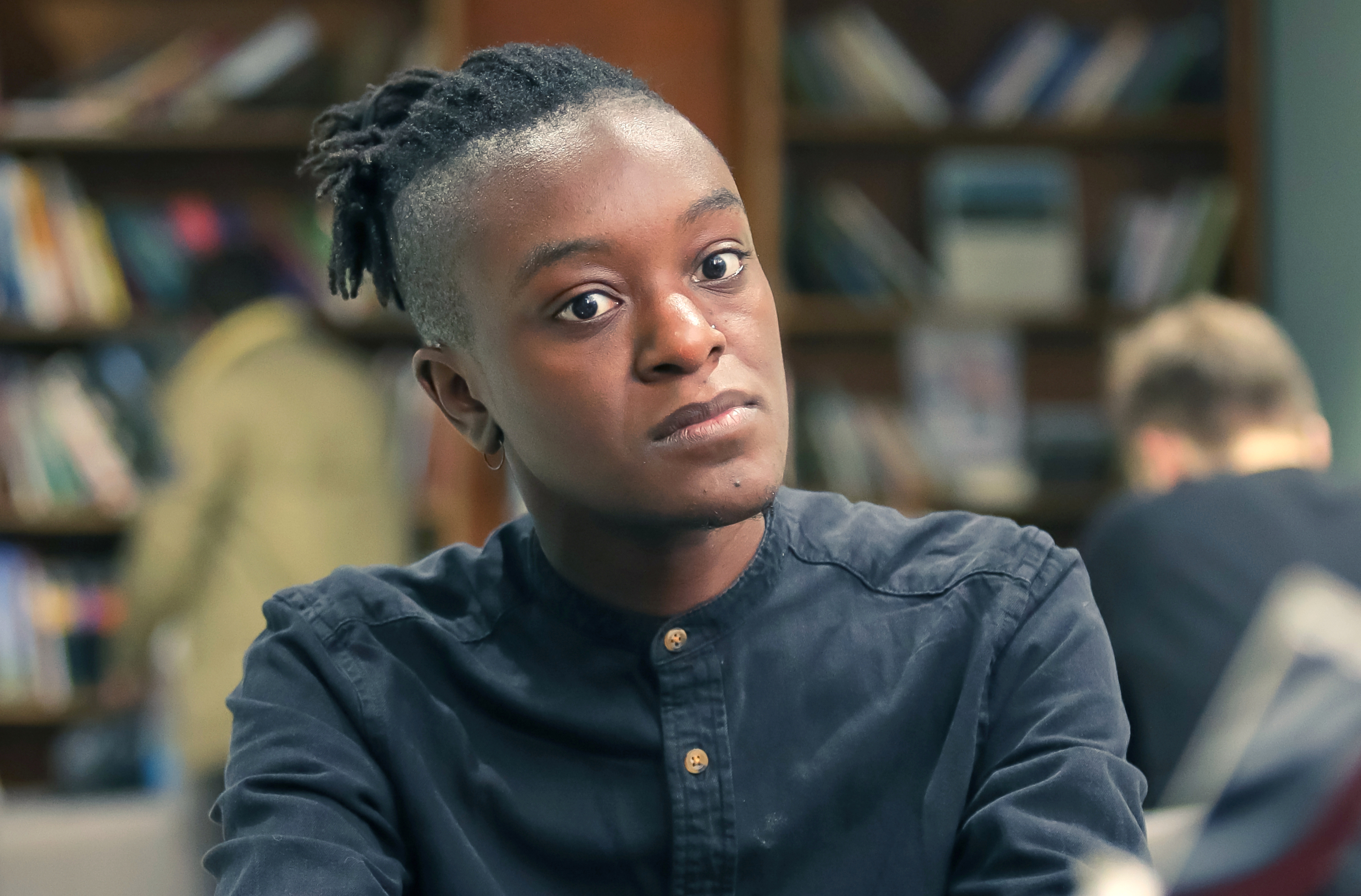 Jay Bernard is a British writer, artist, film programmer, and activist from London, UK. Meeting with writers from the UK in All-Russia State Library for Foreign Literature.